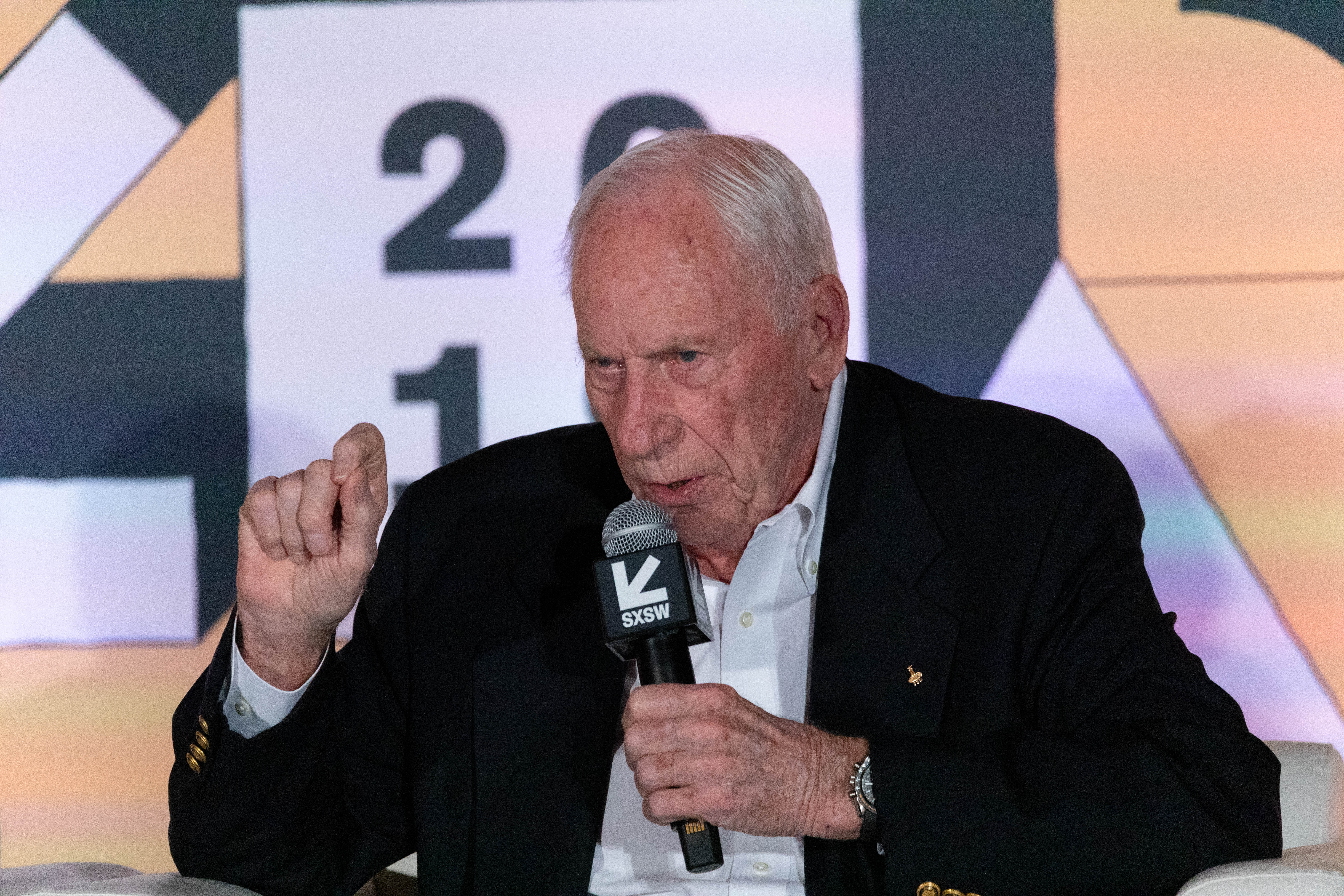 Al Worden, Astronaut @ Apollo Photo: Ståle Grut / NRKbeta